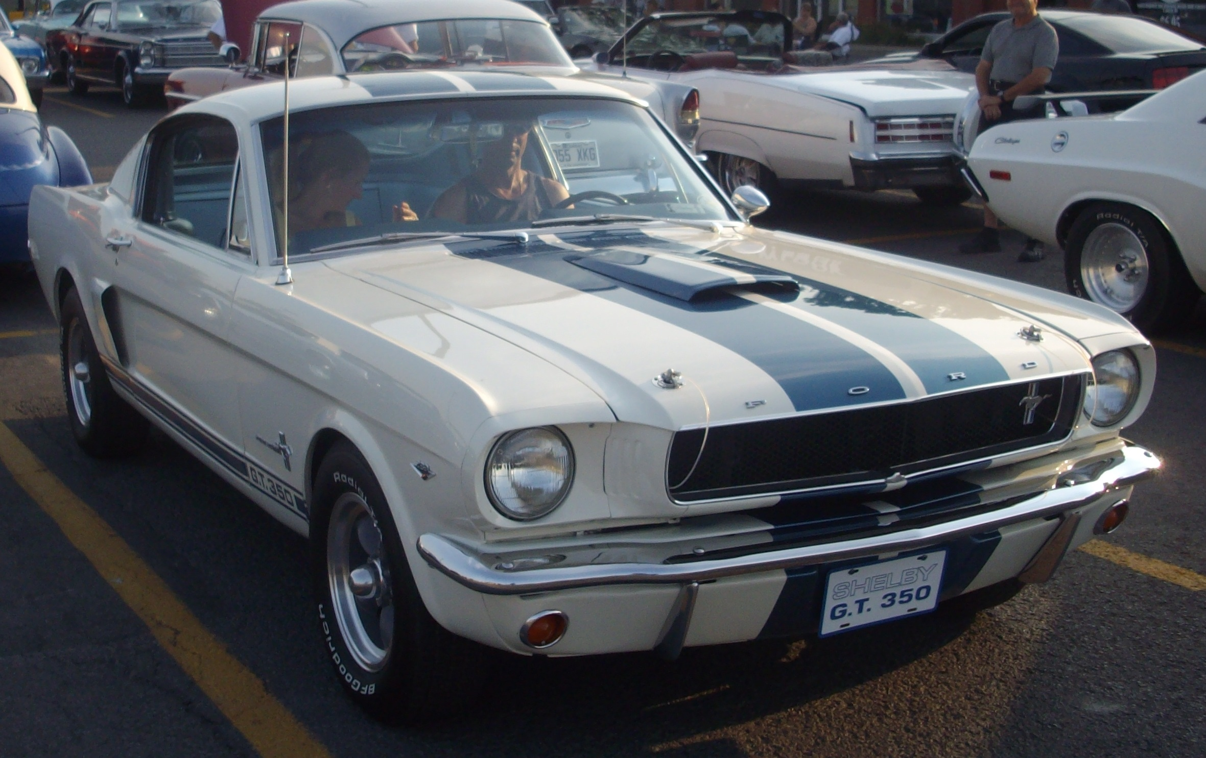 Shelby Ford Mustang GT350 photographed in St. Constant, Quebec, Canada at Auto classique St-Constant.